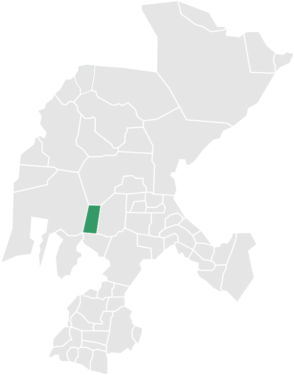 Map of the Municipality of Susticacán in Zacatecas, México.